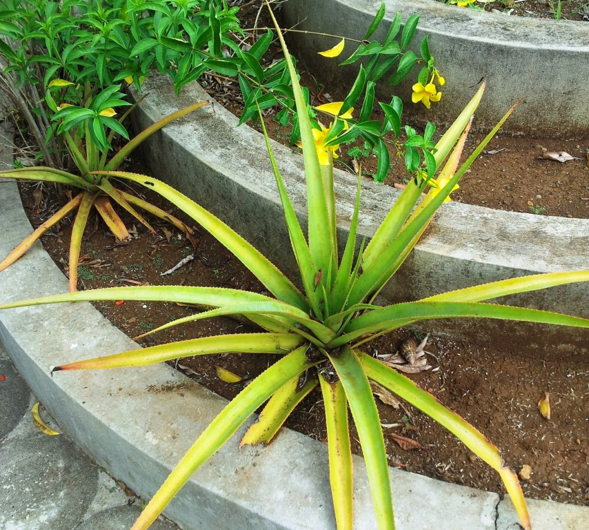 Aloe purpurea - Pamplemousses Mauritius - lomatophyllum purpureum